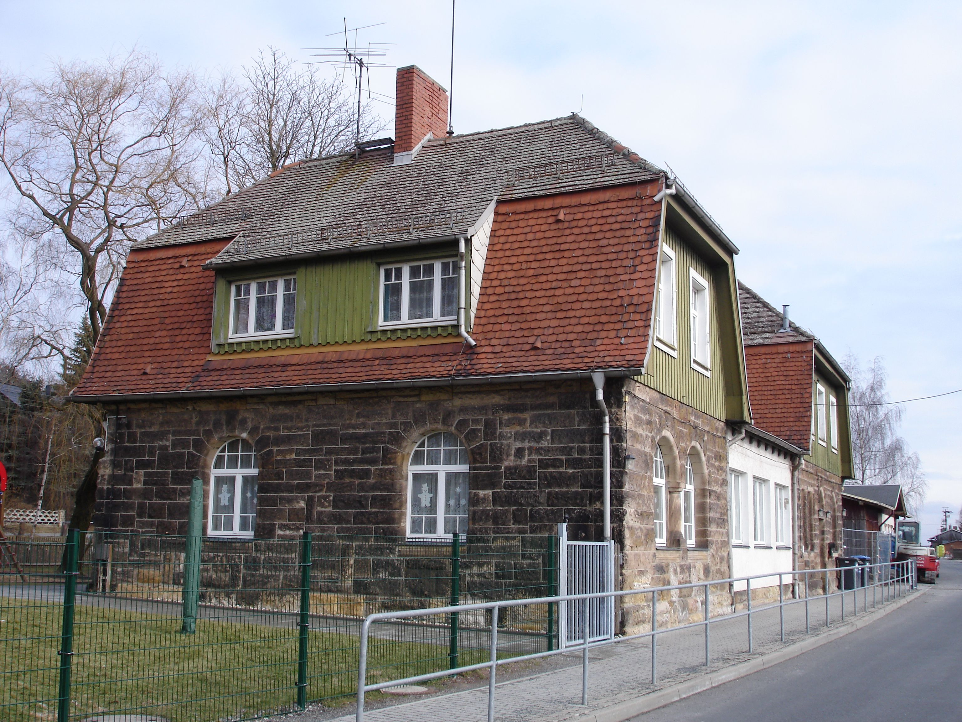 former staion Possendorf, Windbergbahn, Germany